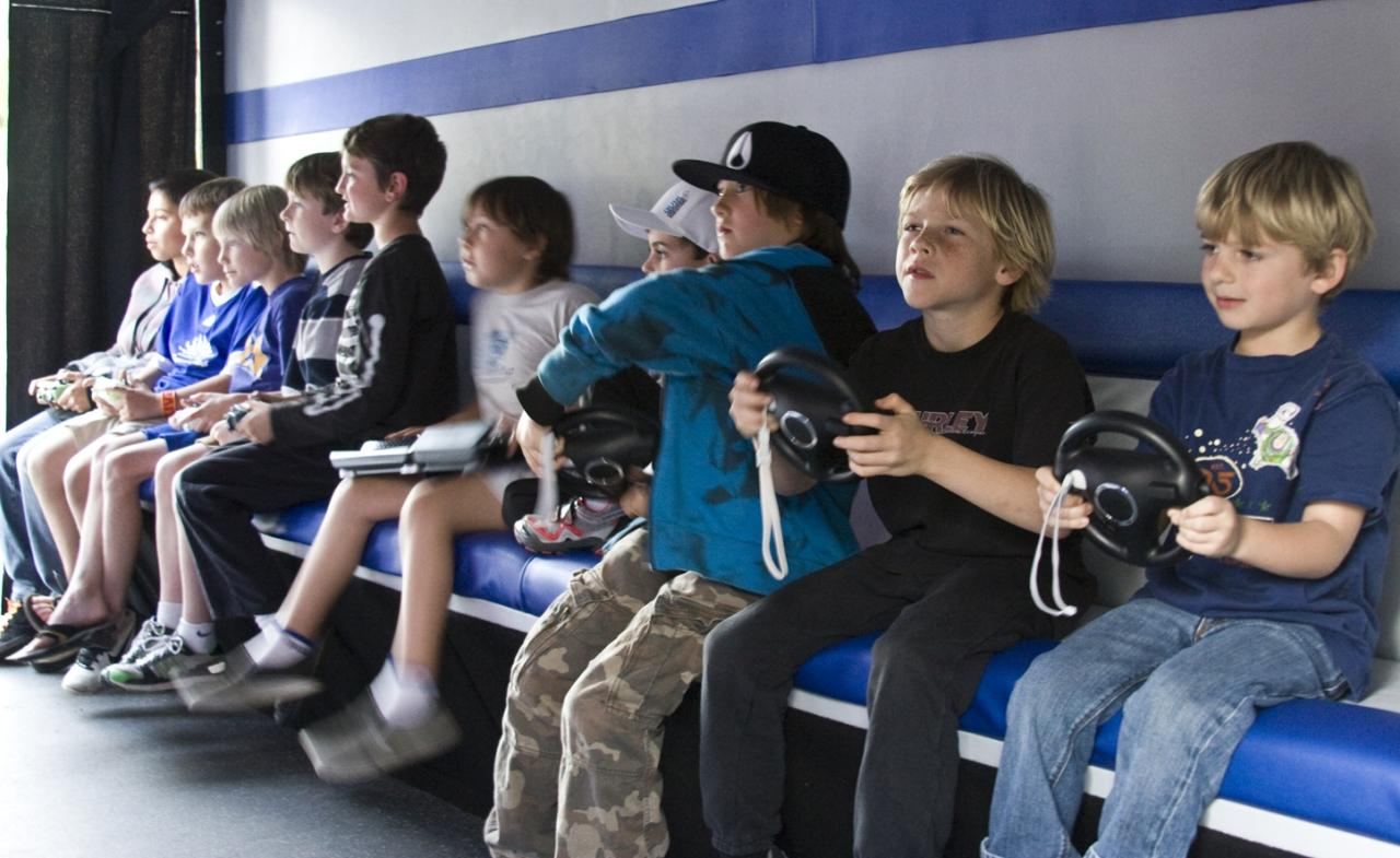 Children playing video games inside a video game truck. There is your premier platform for the best free online games that provide you with entertainment hours with your friends.